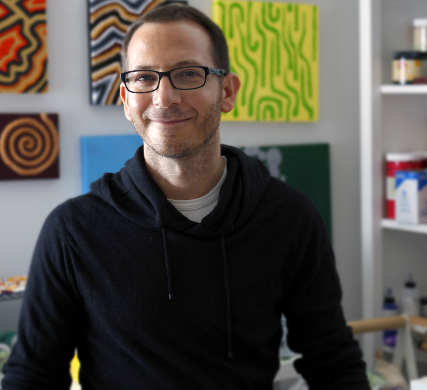 This is a picture I took of Gareb Shamus when I got to go to his gallery in New York